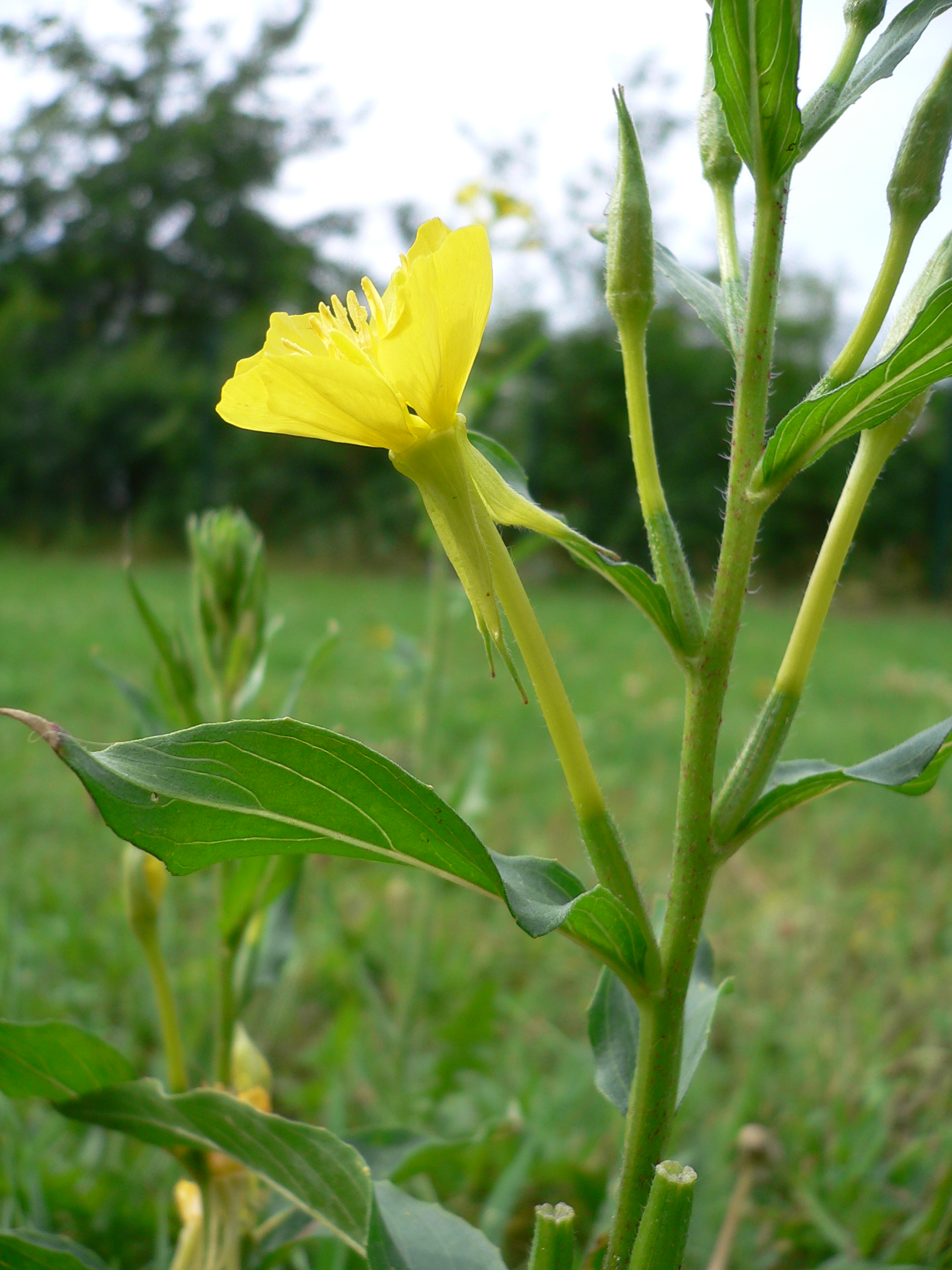 plant of group Oenothera biennis agg., possibly Oenothera chicaginensis